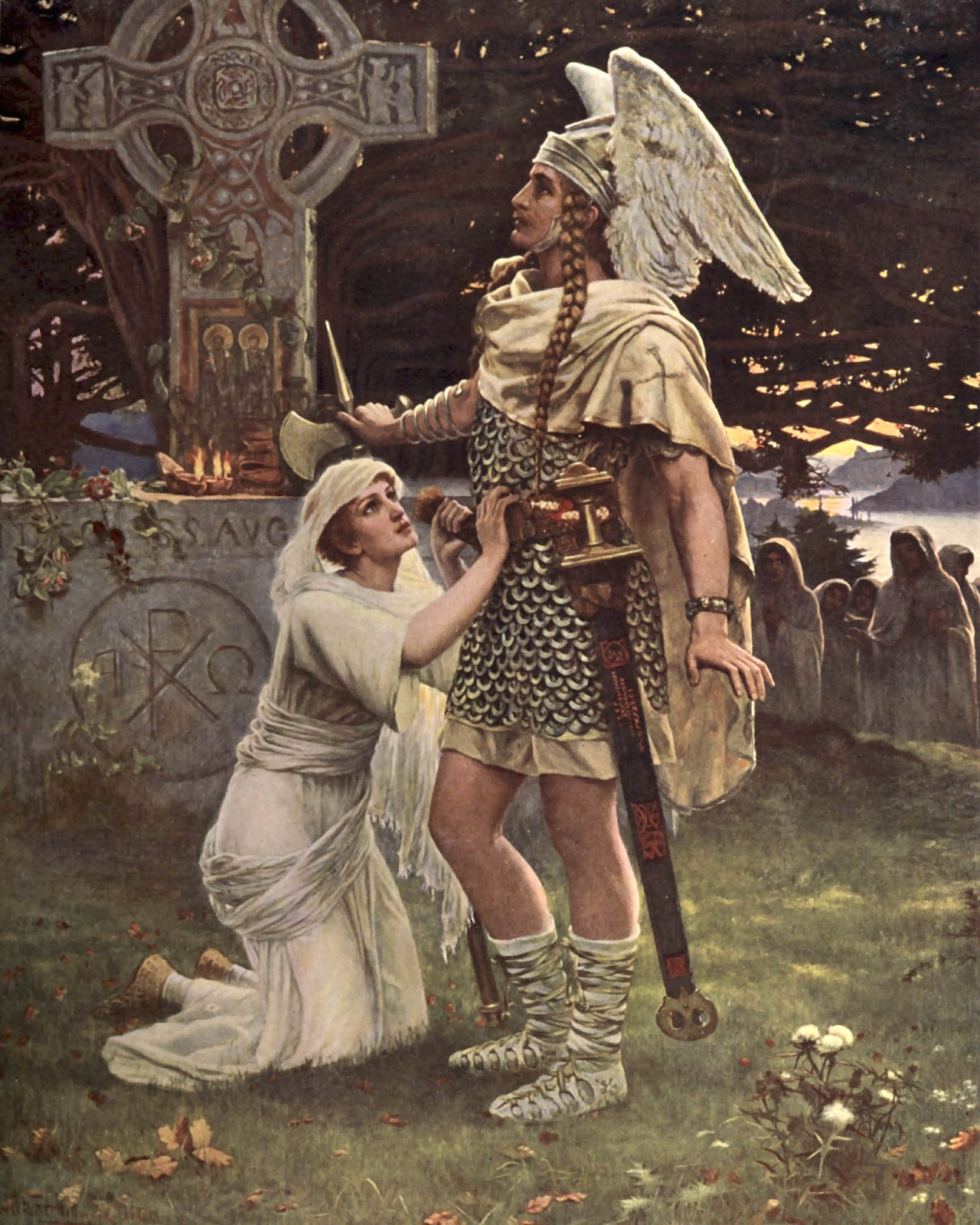 Sir Galahad